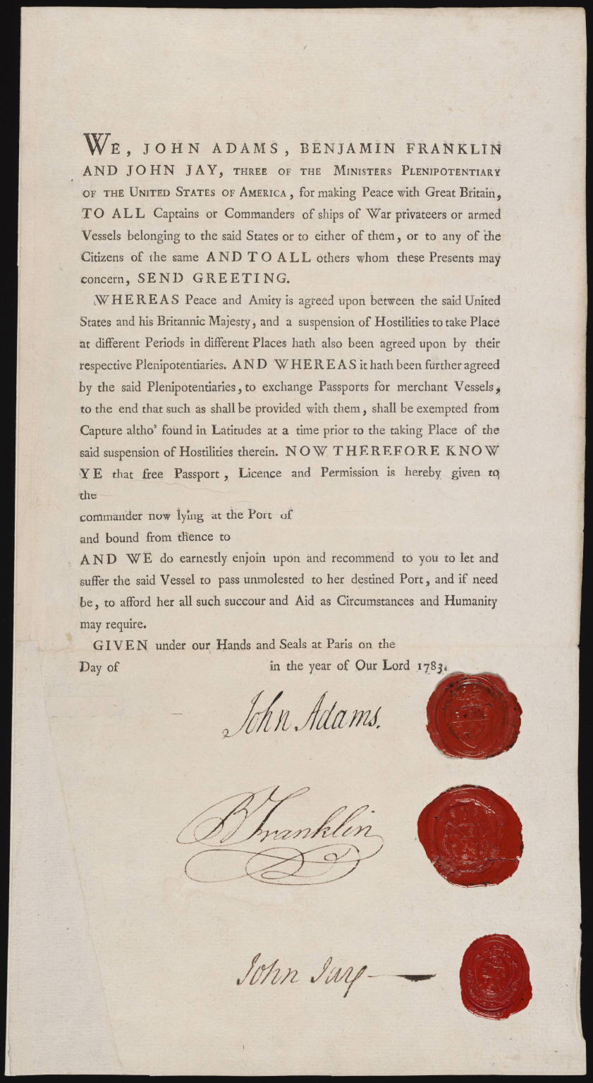 Passport for John Adams, Benjamin Franklin and John Jay, Ministers Penipotentiary. Courtesy of the Beinecke Rare Book & Manuscript Library, Yale University.[1]